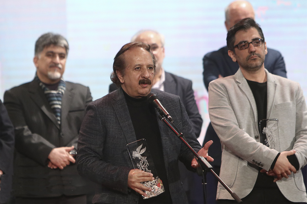 Closing ceremony of the 38th annual Fajr Film Festival at the Milad Tower conference hall on February 11, 2020, in Tehran, Iran